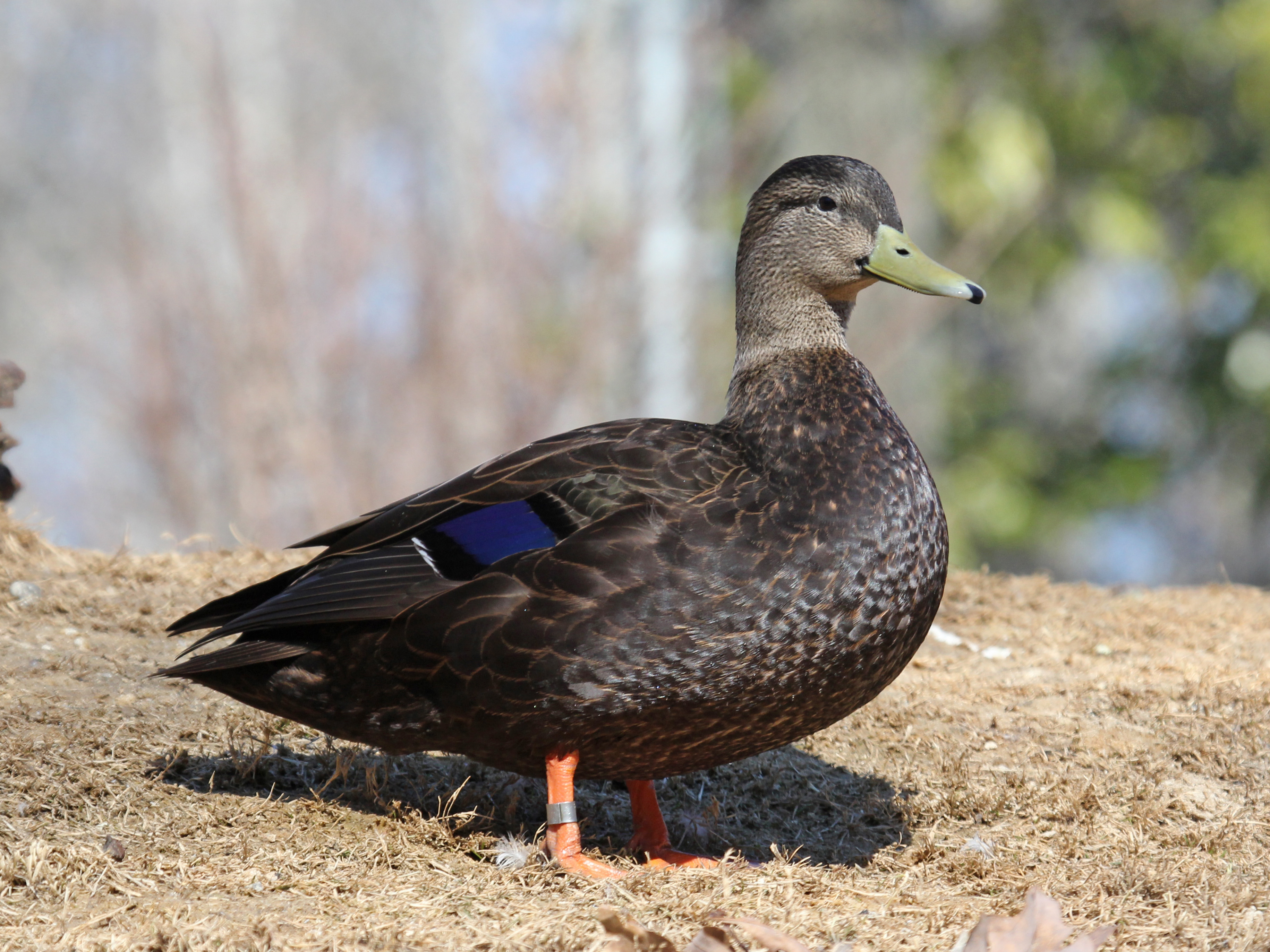 Male American Black Duck (Anas rubripes) - Sylvan Heights Waterfowl Park, Scotland Neck, North Carolina